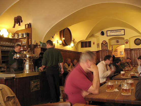 'U Zlatého Tygra' inn, Prague.